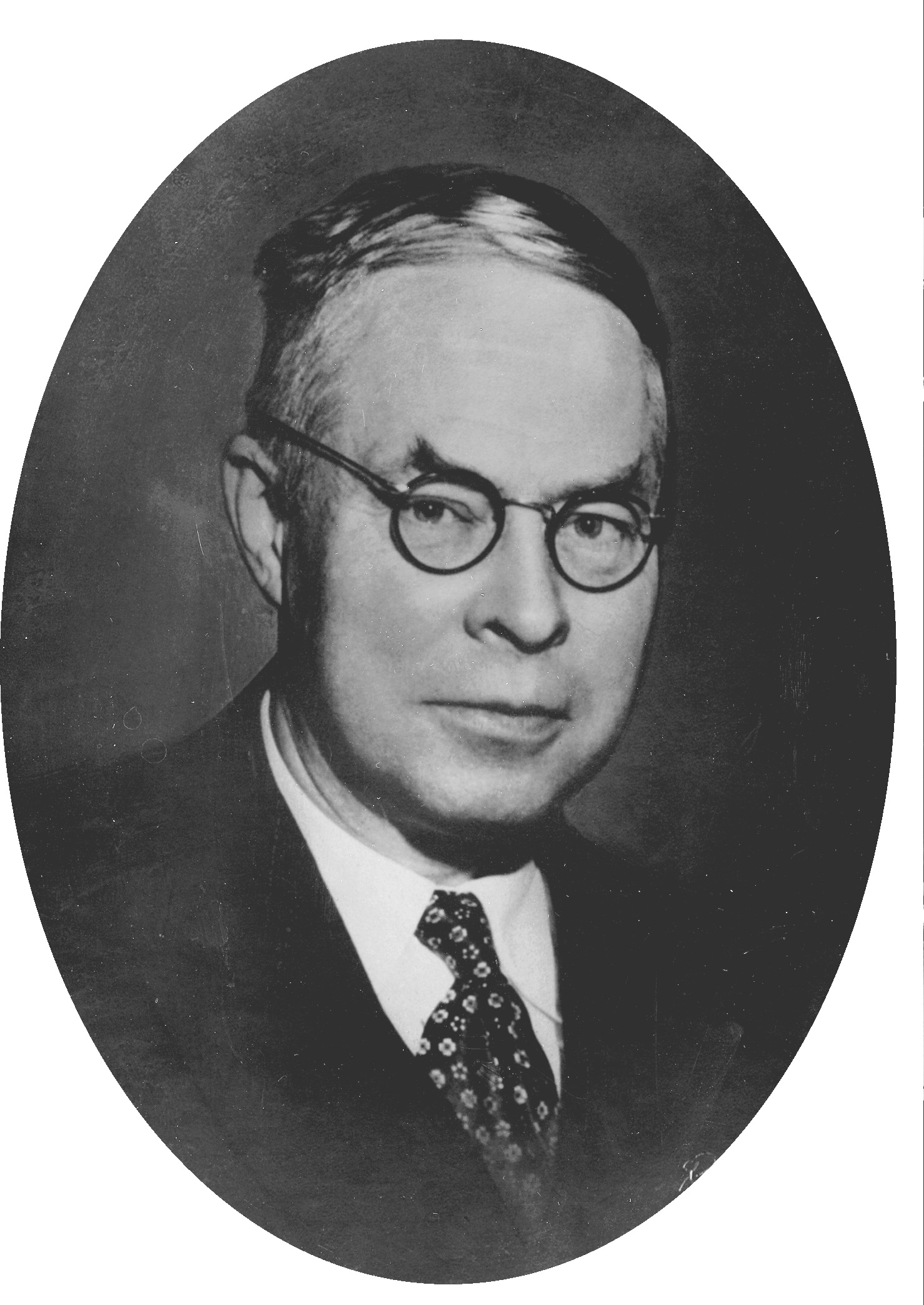 Director General of Norwegian Water Resources and Energy Directorate Fredrik Vogt (1947 - 1960).